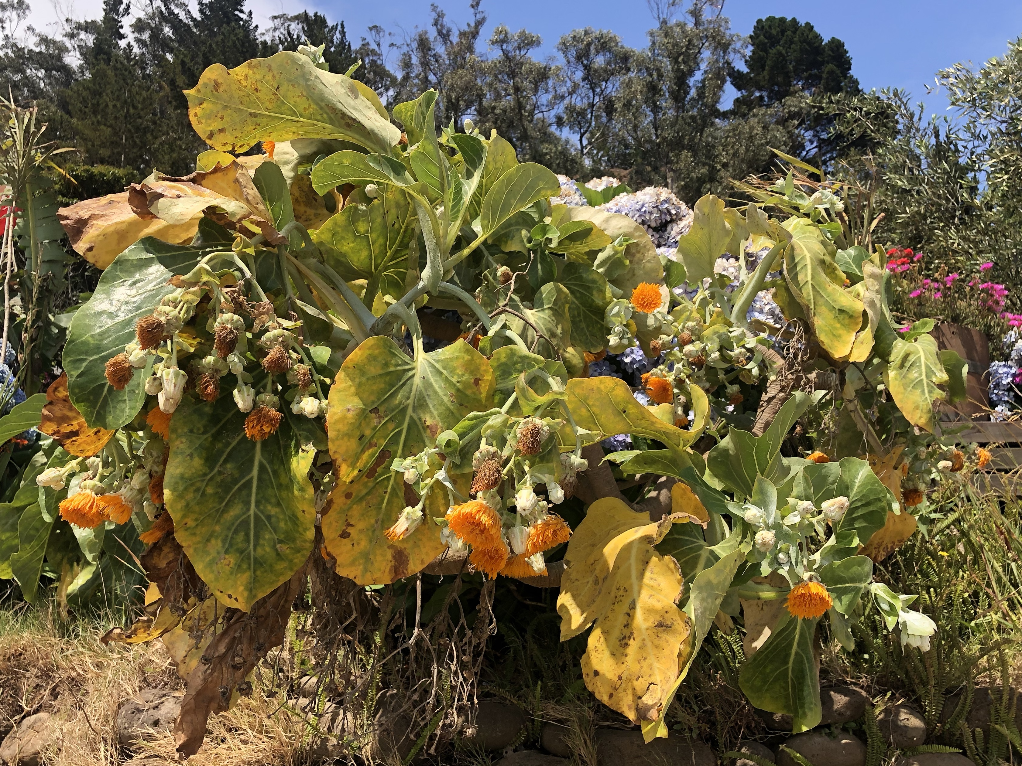 Robinson Crusoe Island Dendroseris litoralis – Juan Fernández Cabbage Tree